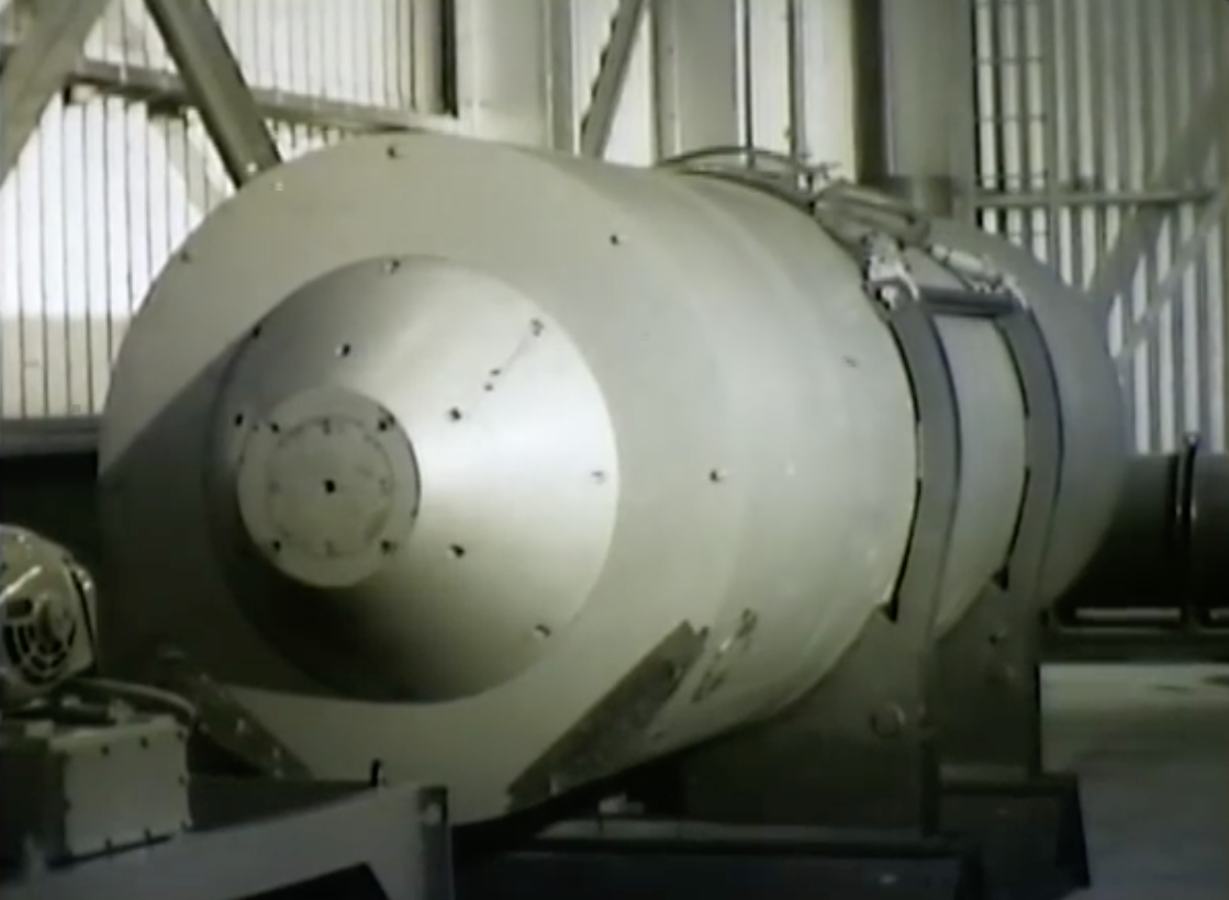 Operation Castle, Bravo event. The parabolic projection of the Shrimp device.